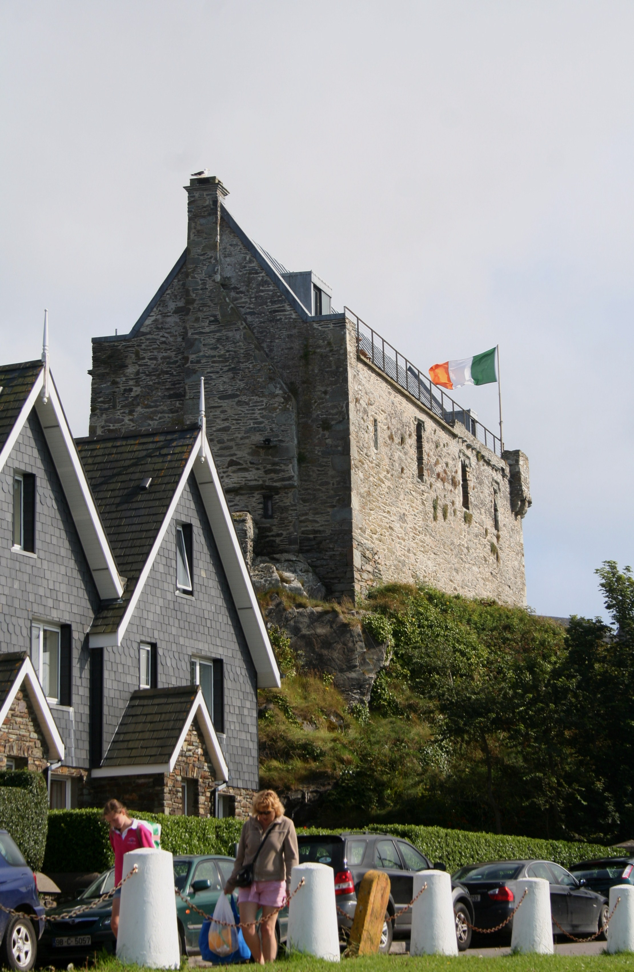 Fort of the Jewels Baltimore Castle,Dun na Sead, the fort of the jewels was the seat of the O'Driscolls.